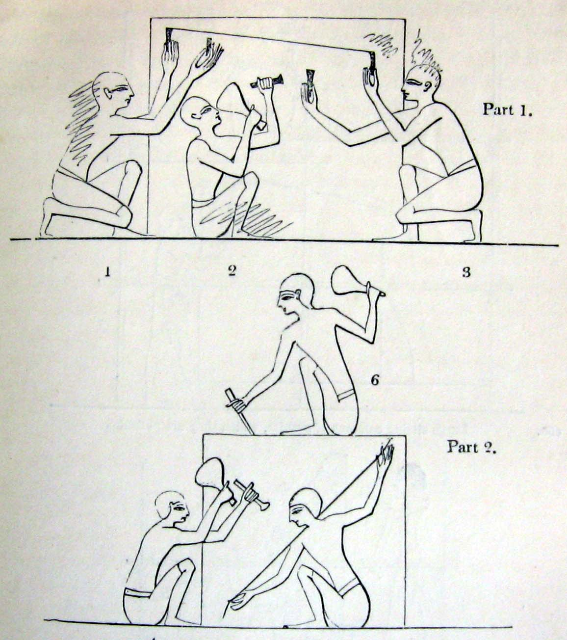 Checking and smoothing off a limestone blok, as despicted in the tomb of Rekhmire